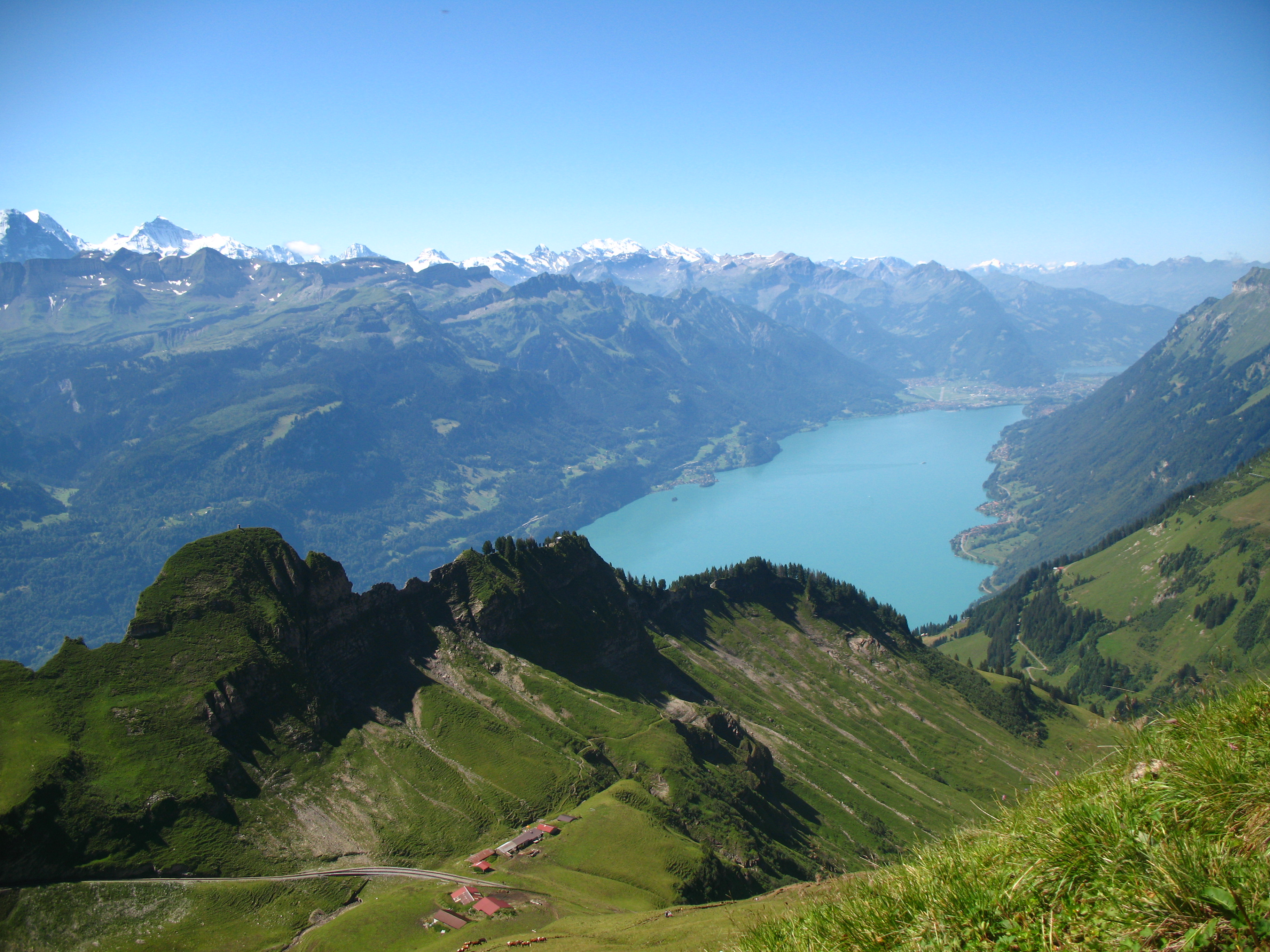 Brienz Rothorn Bahn (BRB), Brienz, Switzerland